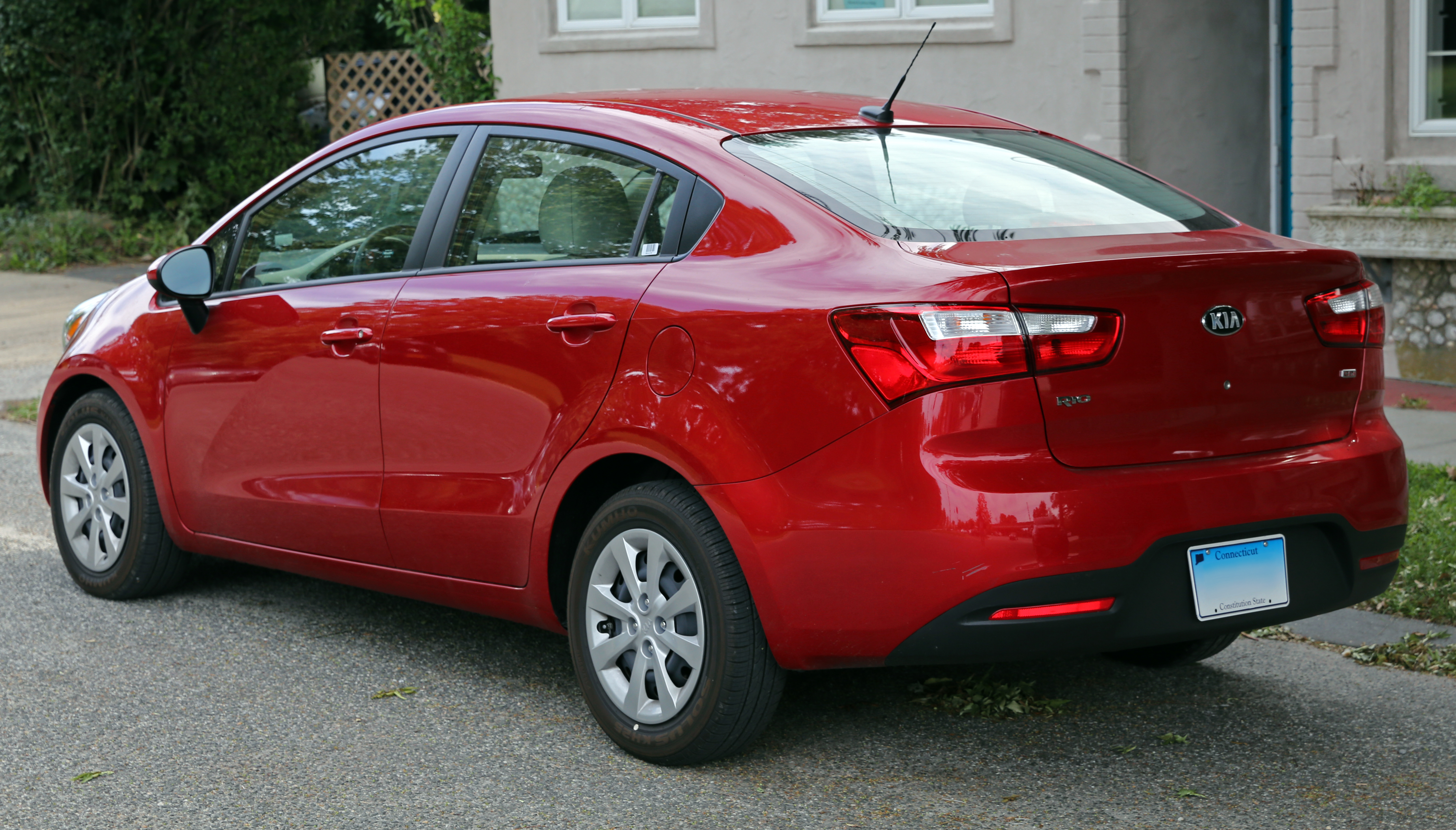 2013 Kia Rio sedan in Southampton, NY.